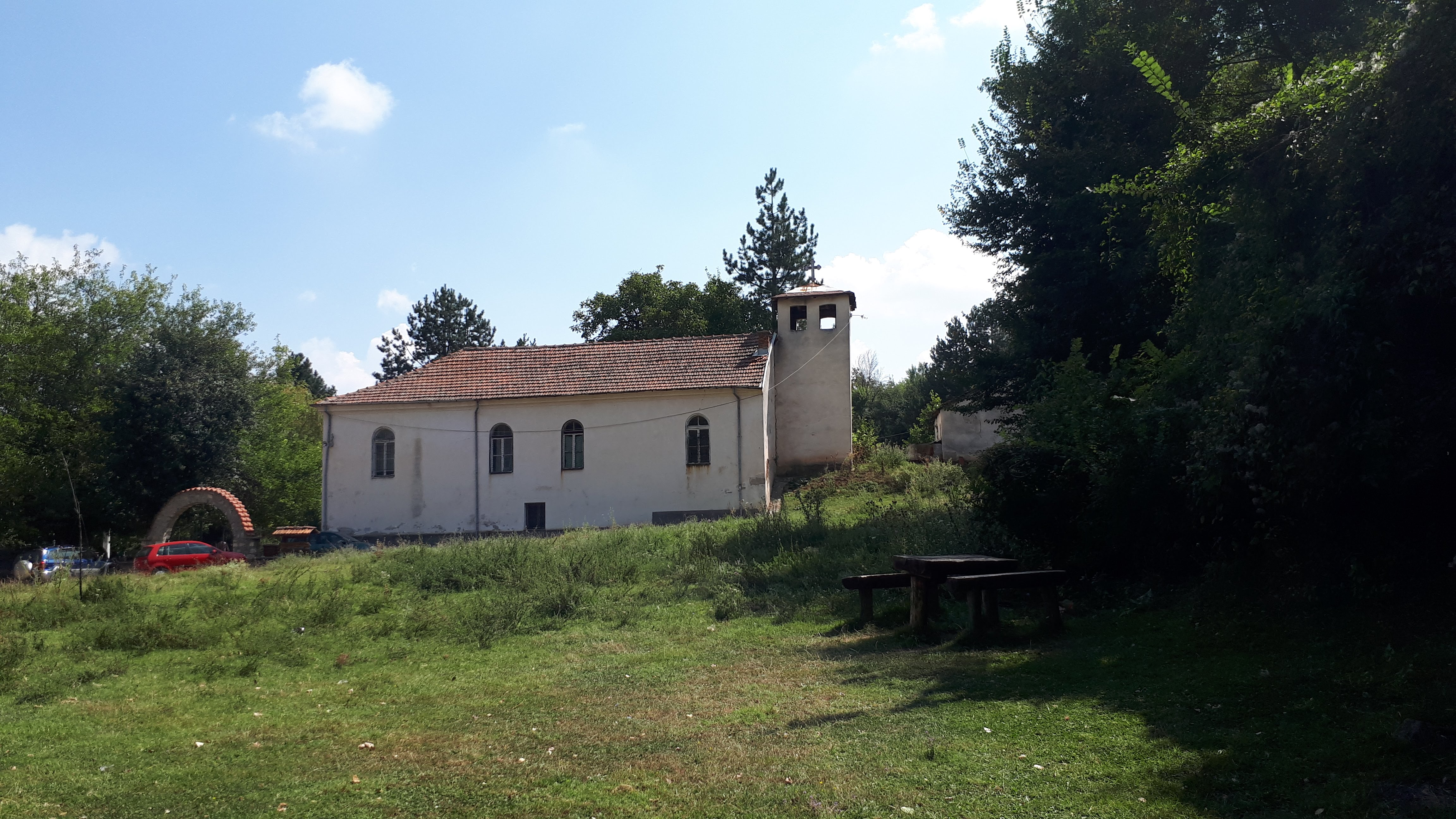 View of the St. Christopher Church in the village Krstoar